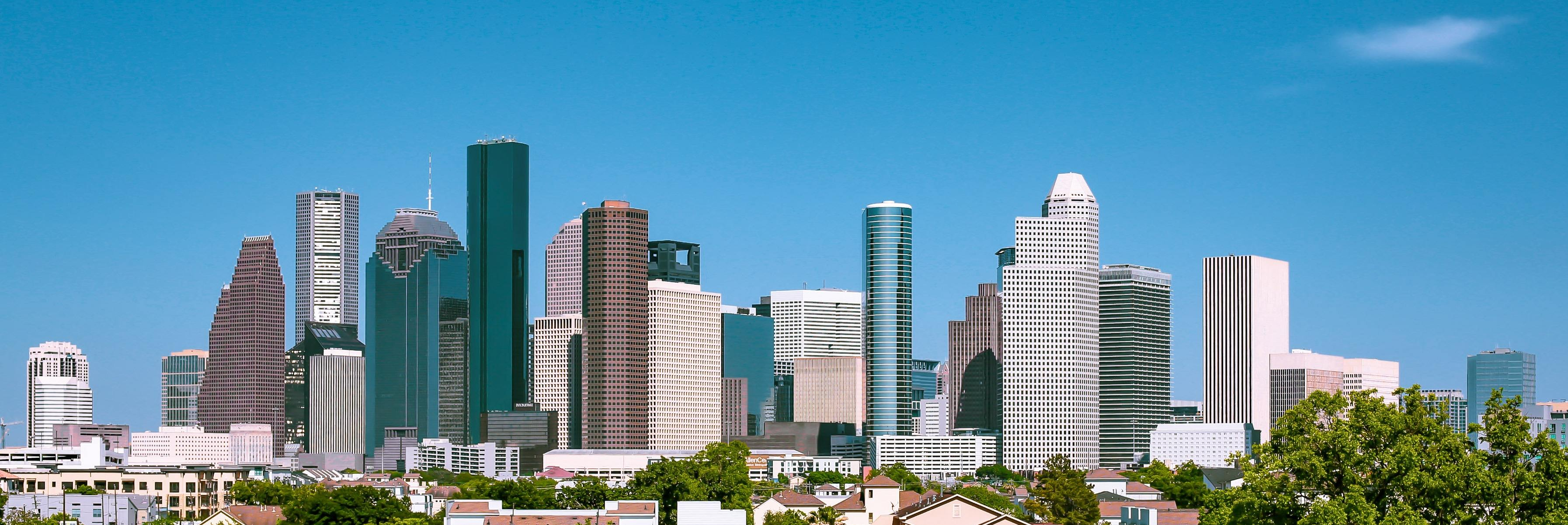 Downtown Houston skyline